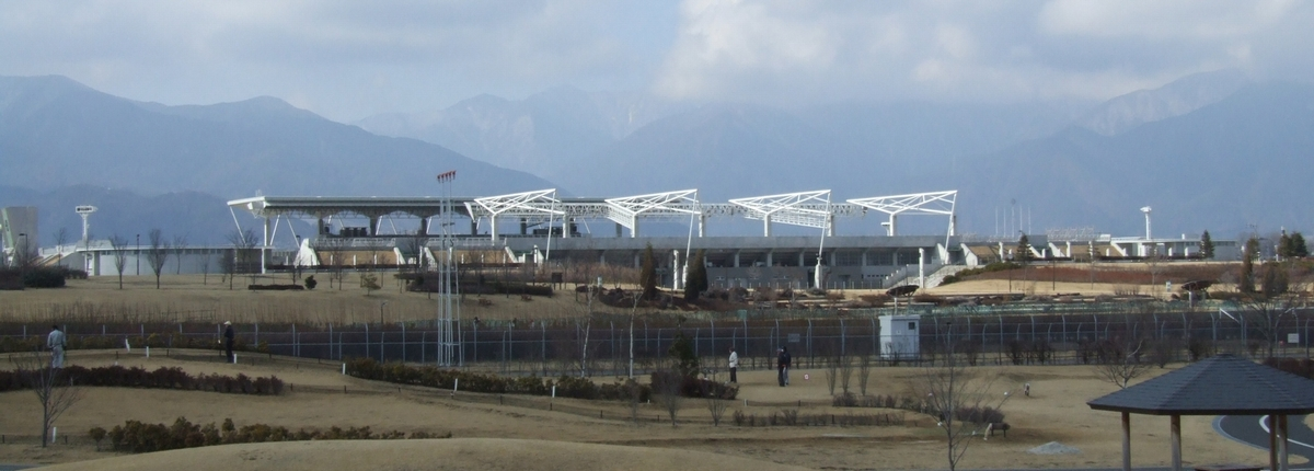 Matsumotodaira Kouiki Park Sougou Stadium "Alwin"